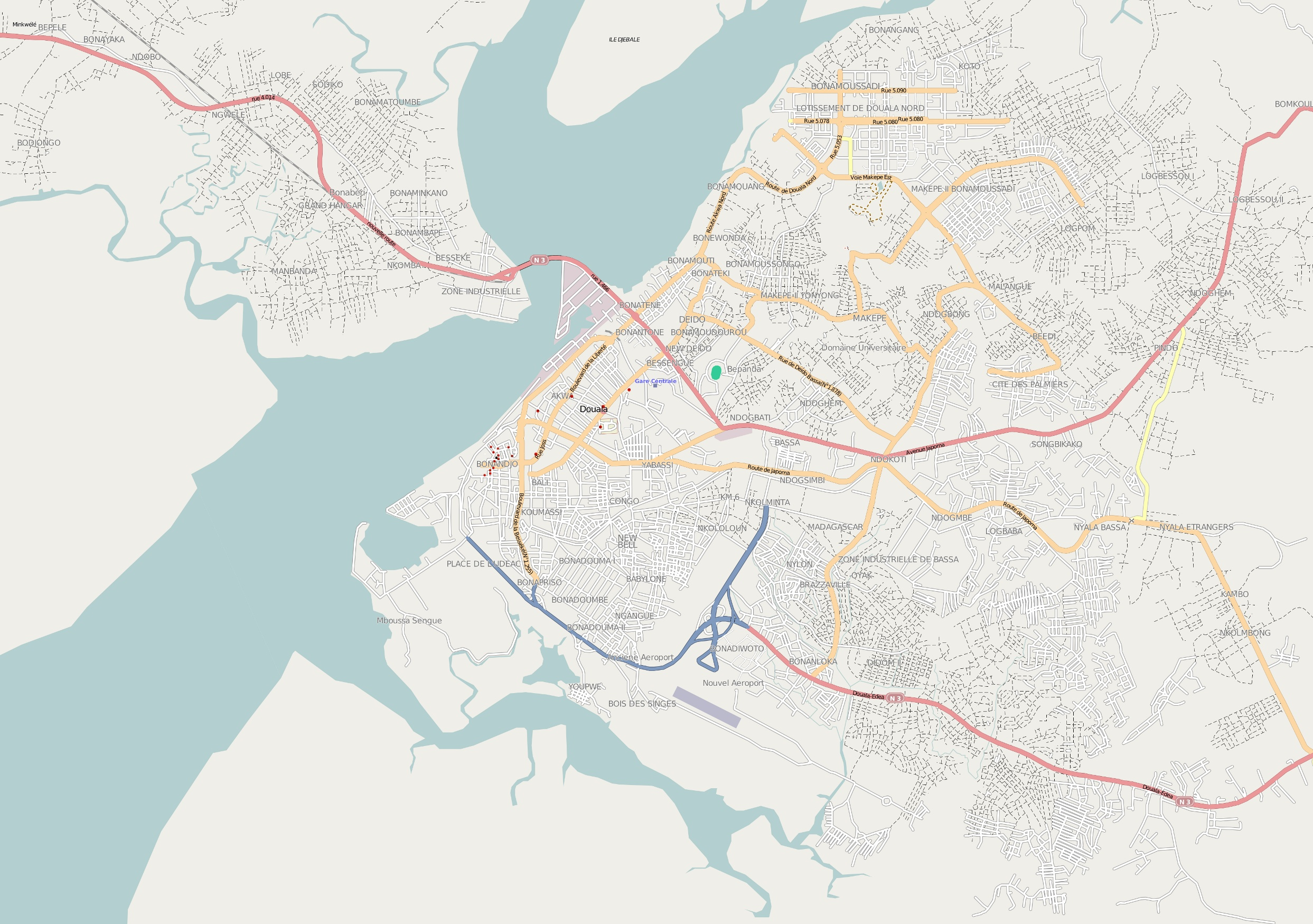 Map of public artworks commissioned and produced by doual'art in Douala, 2010.